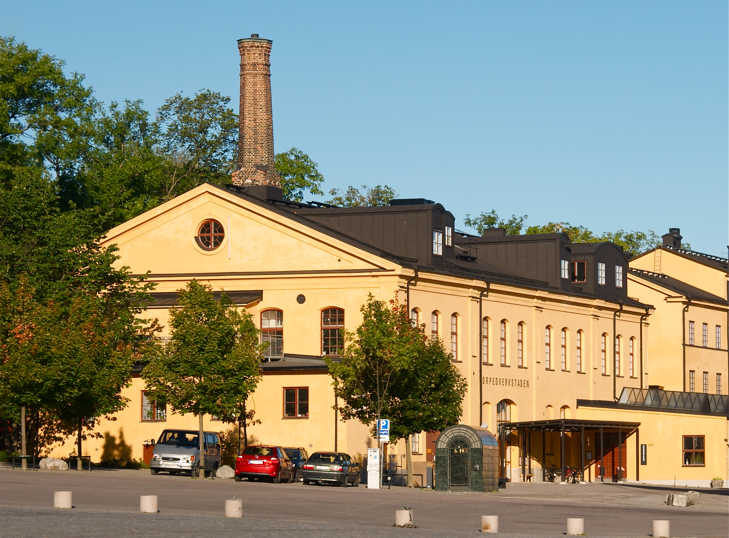 Torpedverkstaden, Skeppsholmen (Stockholm, Sweden) september 2011.